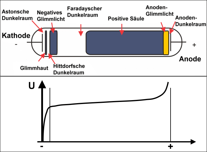 Glimmentladung / electric glow discharge Partly based on Image:Glow-discharge-schematic.gif by Ian Tresman (22 Mar 2006) which was uploaded by User:Iantresman. U(distance)-Diagram: drawing by Anton 2007